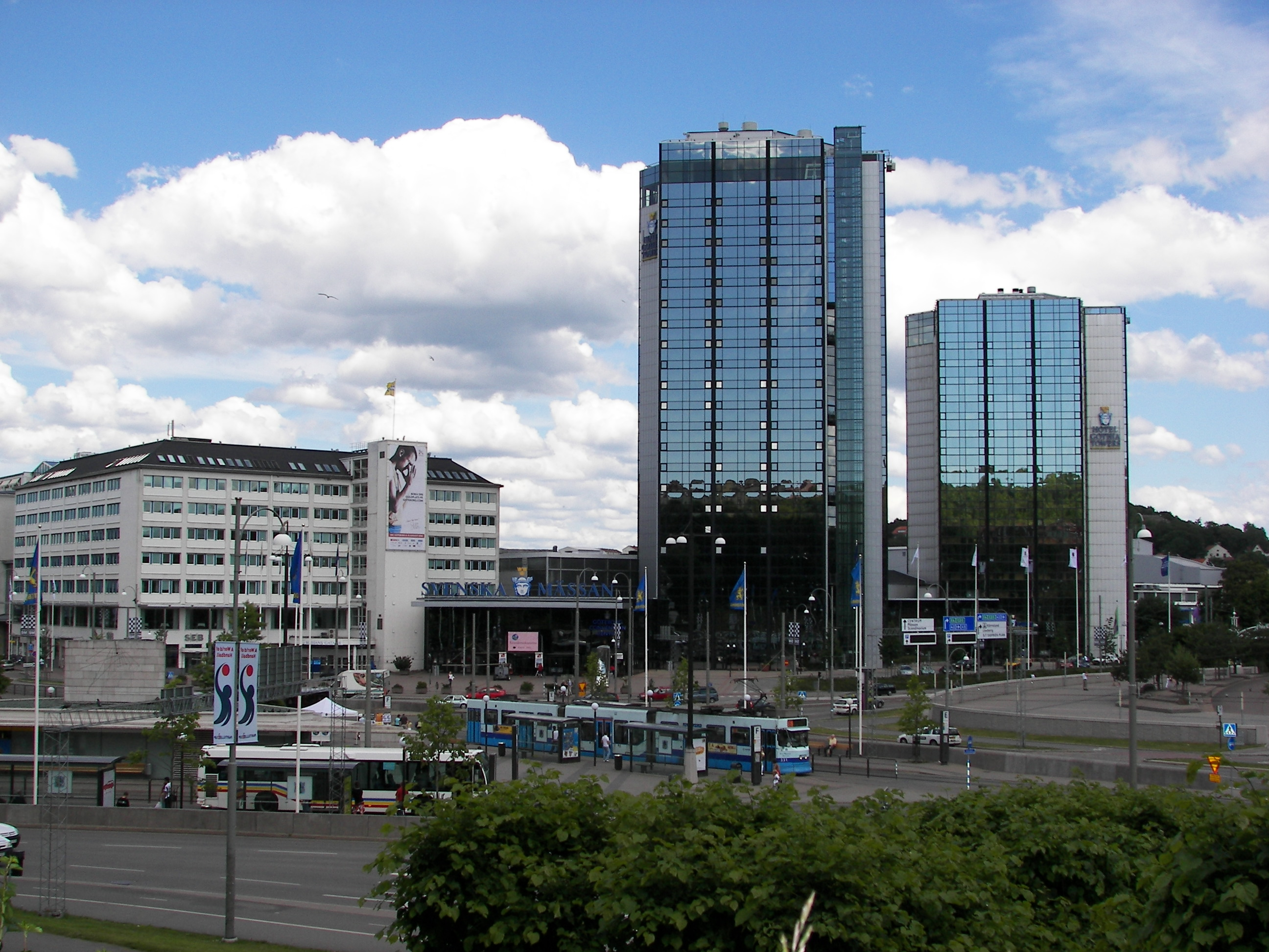 Svenska Mässan/Gothia Towers in Göteborg, Sweden.